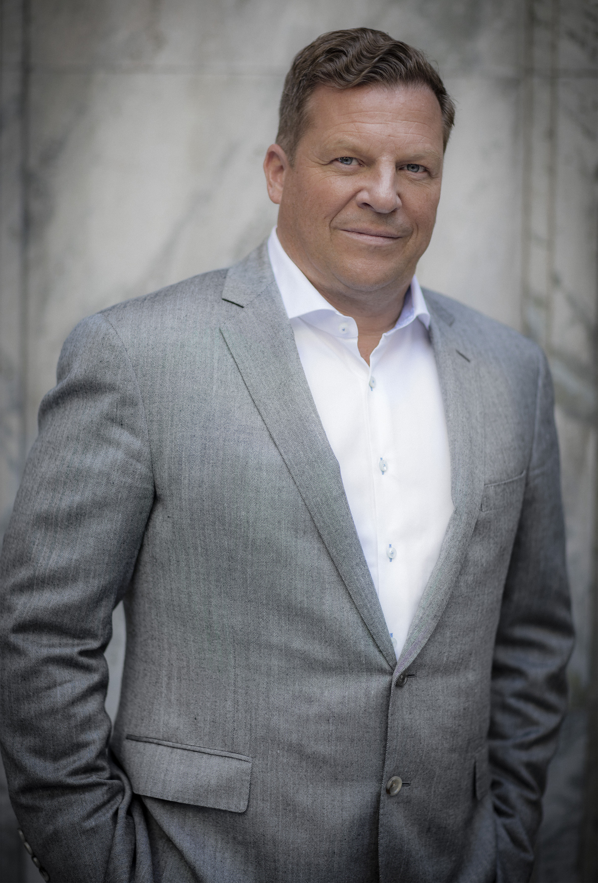 Christen Ager-Hanssen Portrait. Photographer Johan Annerfelt